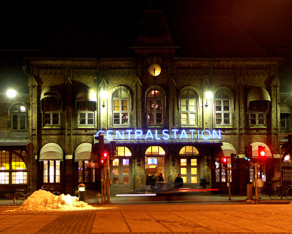 Gothenburg Central Railway Station